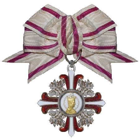 Order of Elisabeth (Second Class) Austria-Hungaria (1900)